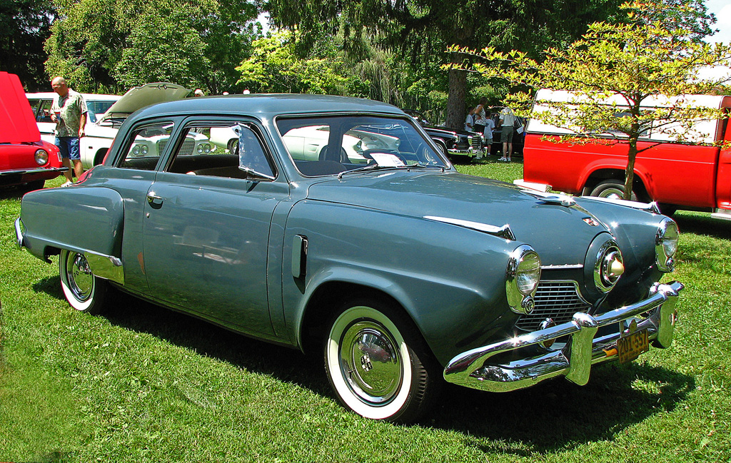 I think the Championi is about 1950 vintage and remember seeing lots or them on the road. It was displayed at the Studebaker Owners lub show at Yoctangee Park, Chillicothe, Ohio.